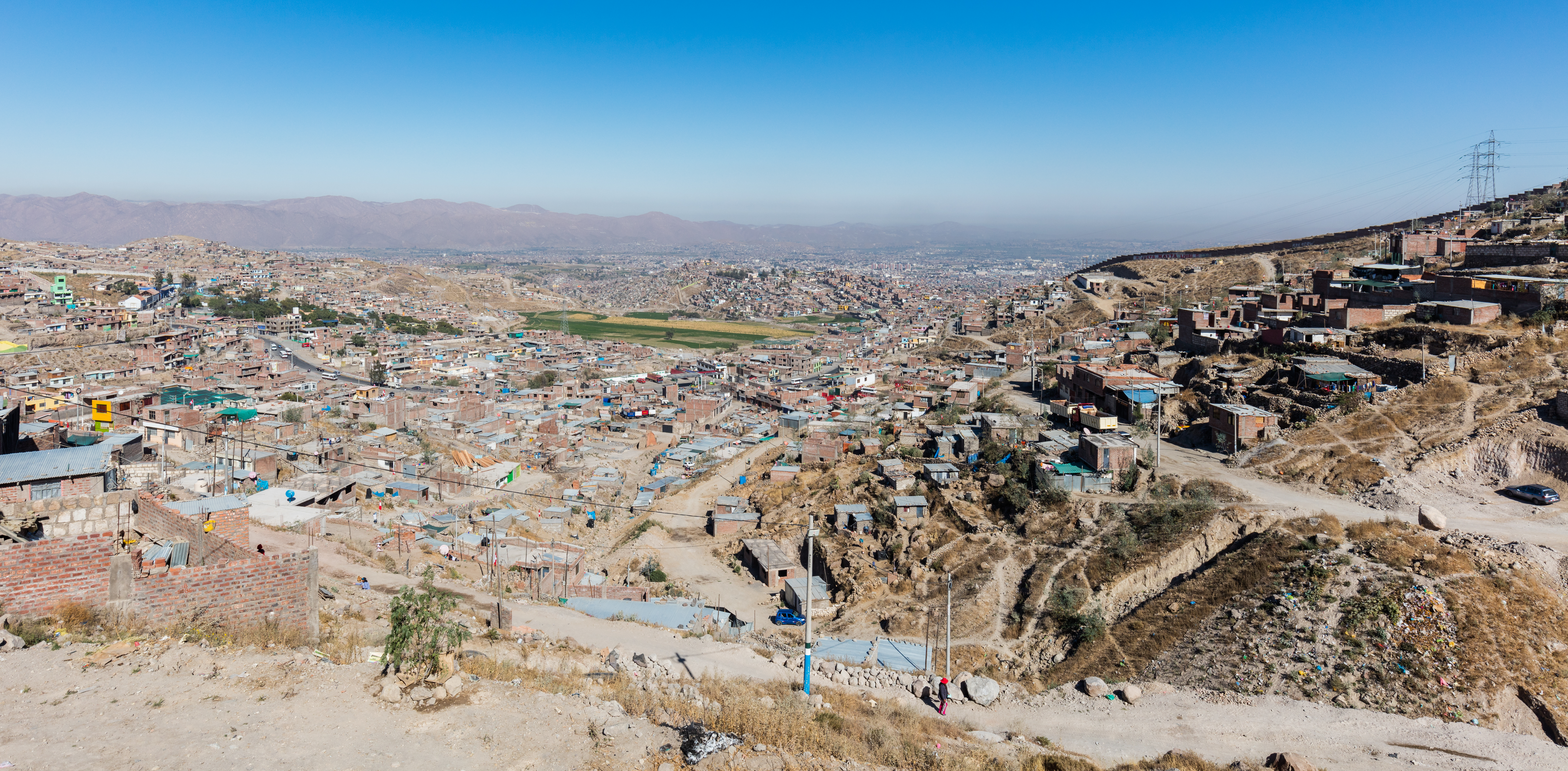 View of Arequipa, Peru